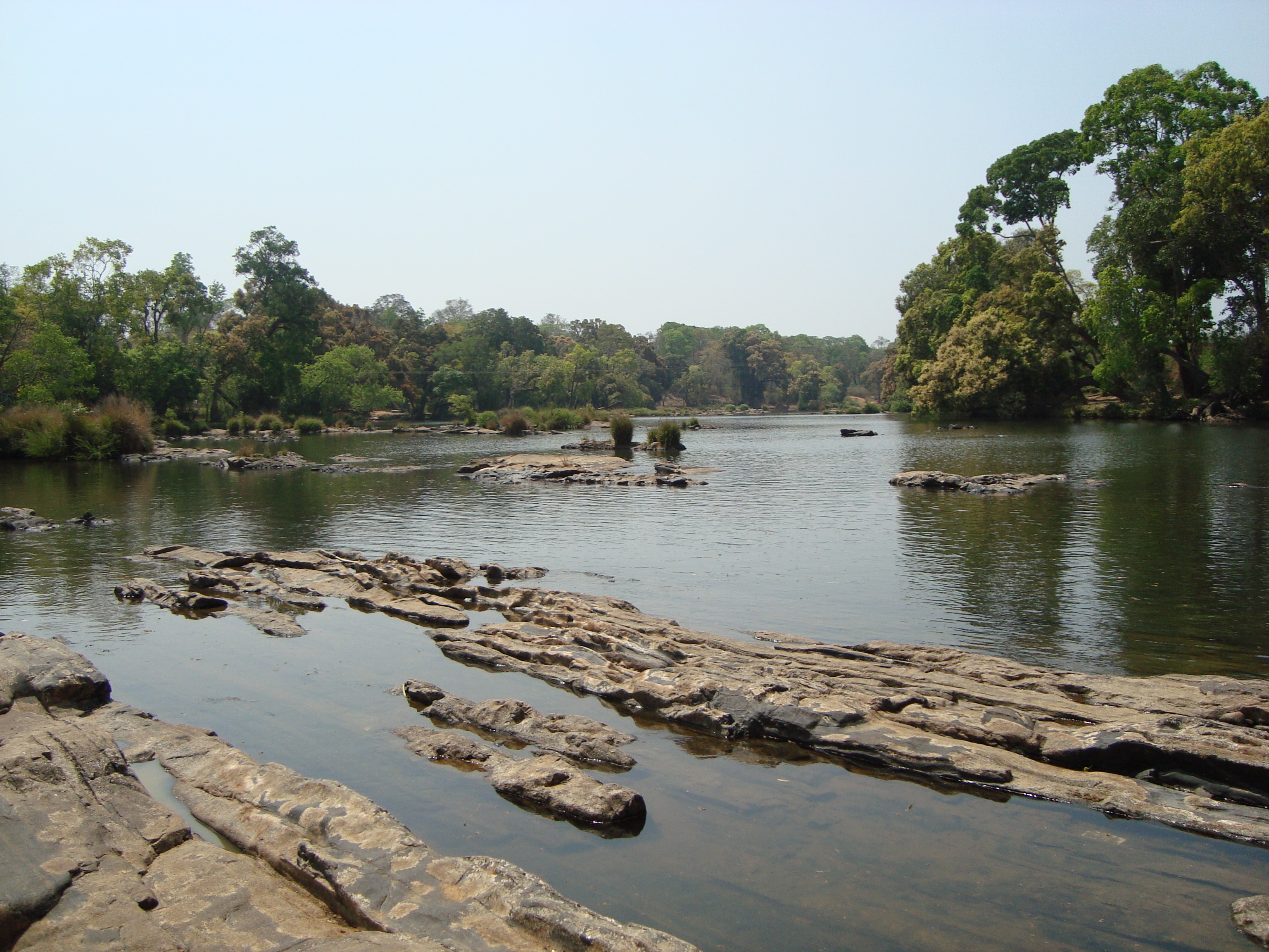 Kavery River in KusalNagar